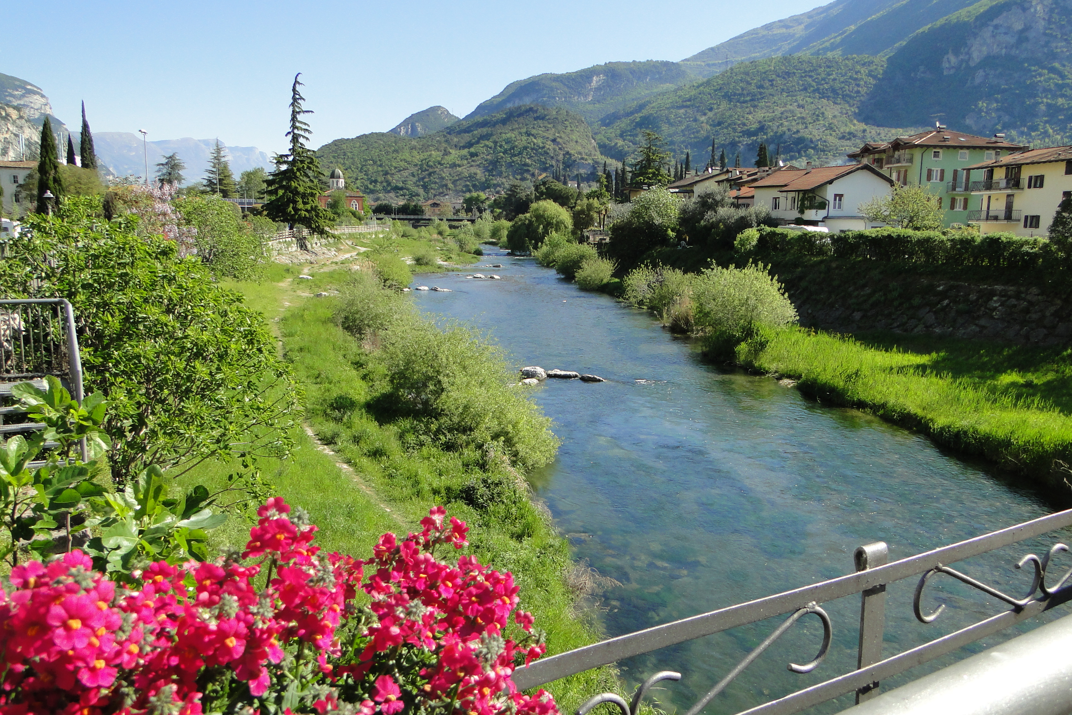 The River Sarca at Arco (Trento, Italy)